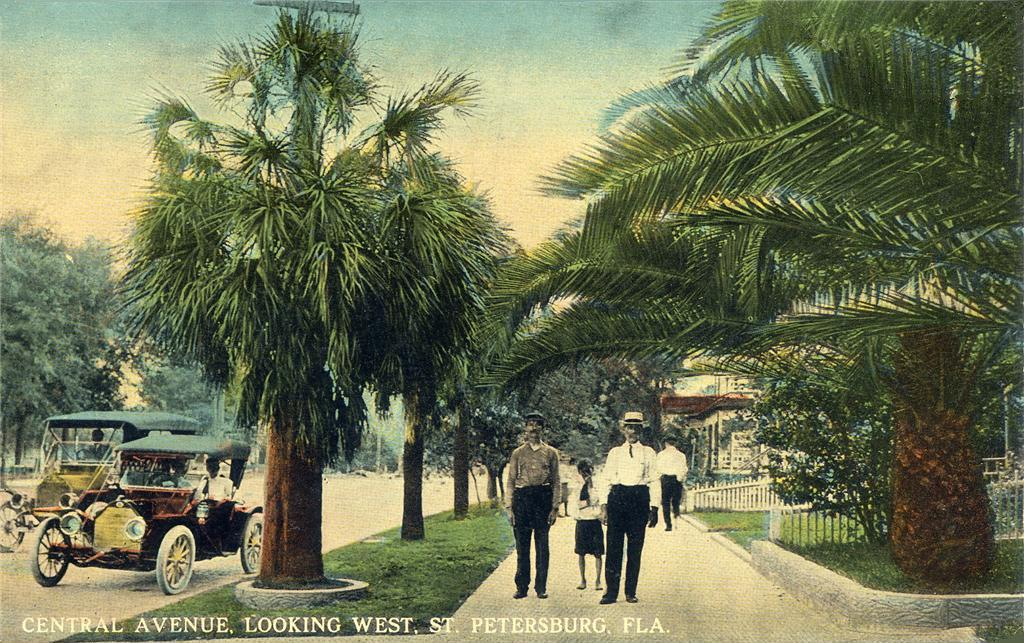 Central Avenue, looking west, St. Petersburg, Florida; from a c. 1910 postcard published by the St. Petersburg Post Card Association.